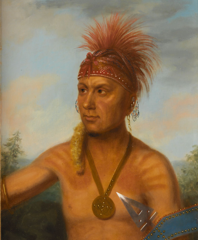 Sauk chief, wearing a headdress of coloured animal hair.